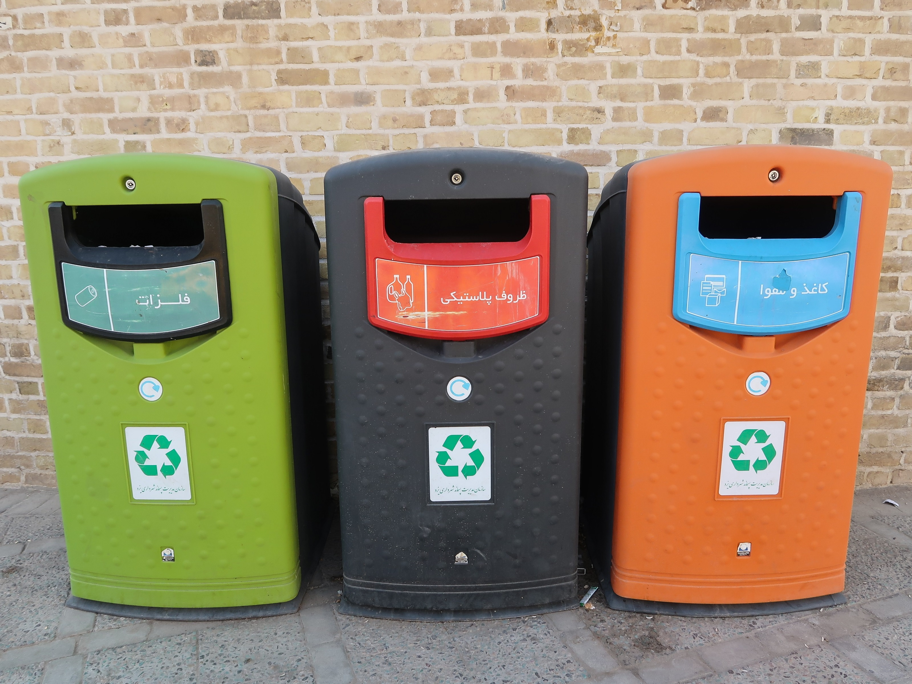 Trashbins for three different sorts of wastes in Yazd city centre. (Iran)